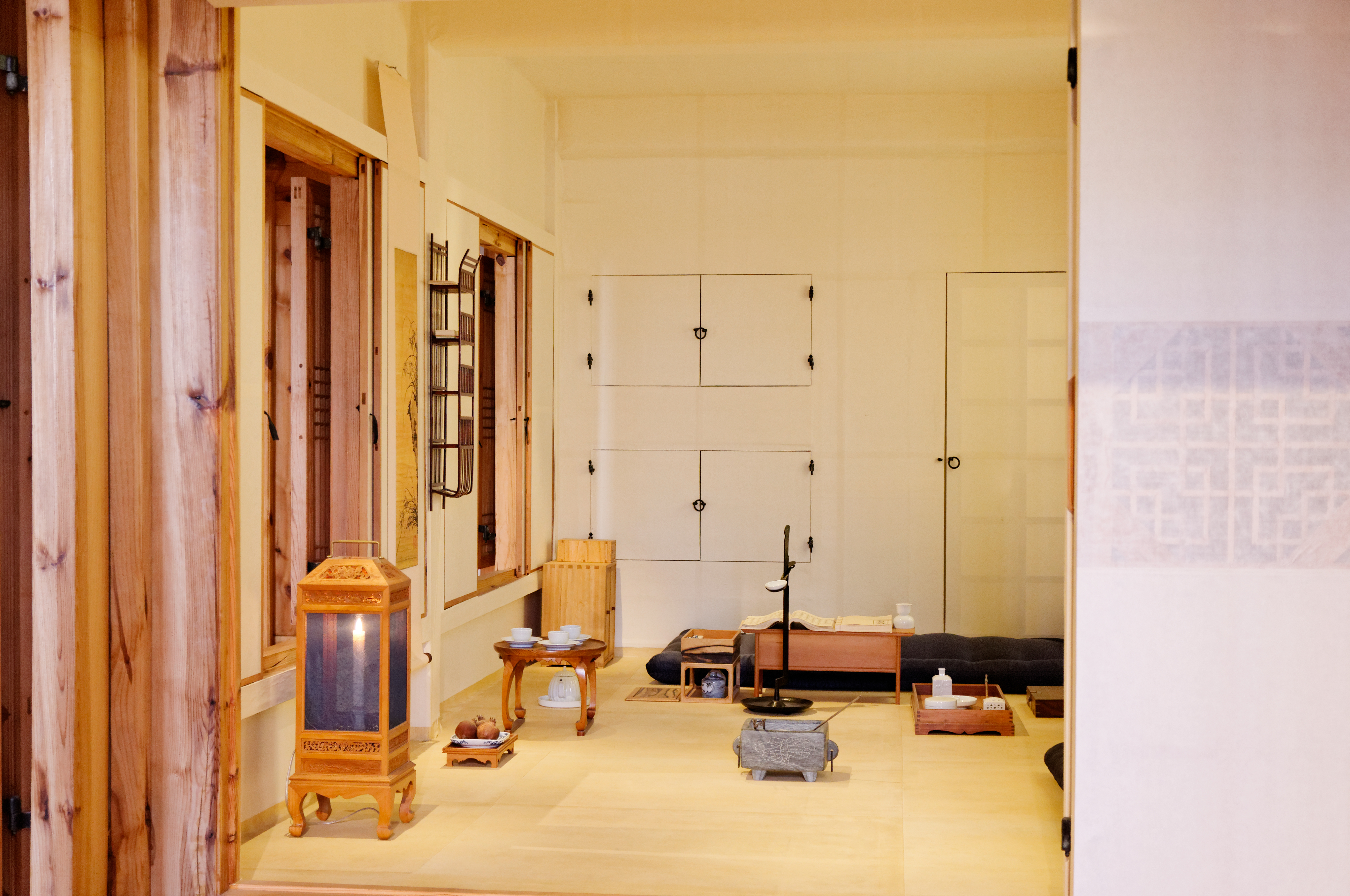 Reconstruction of a traditional Korean sarangbang (scholar's study)